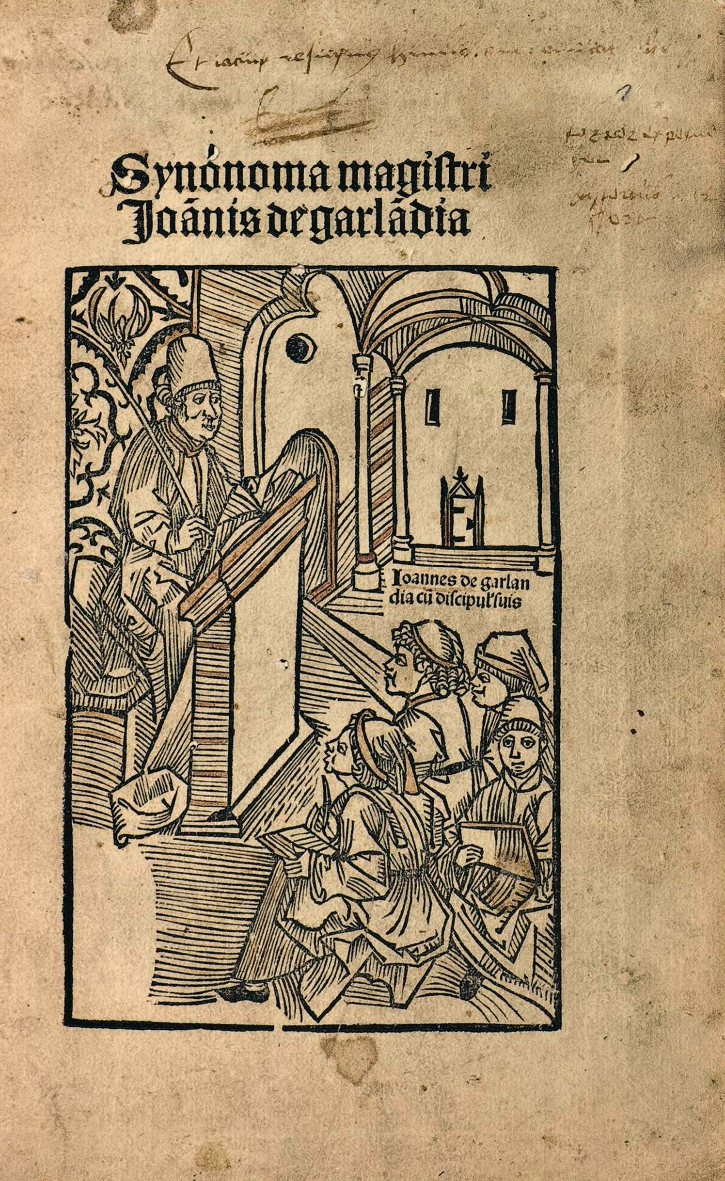 Cover from "Synónoma magistri", by Johannes de Garlandia.